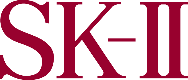 logo SK-II